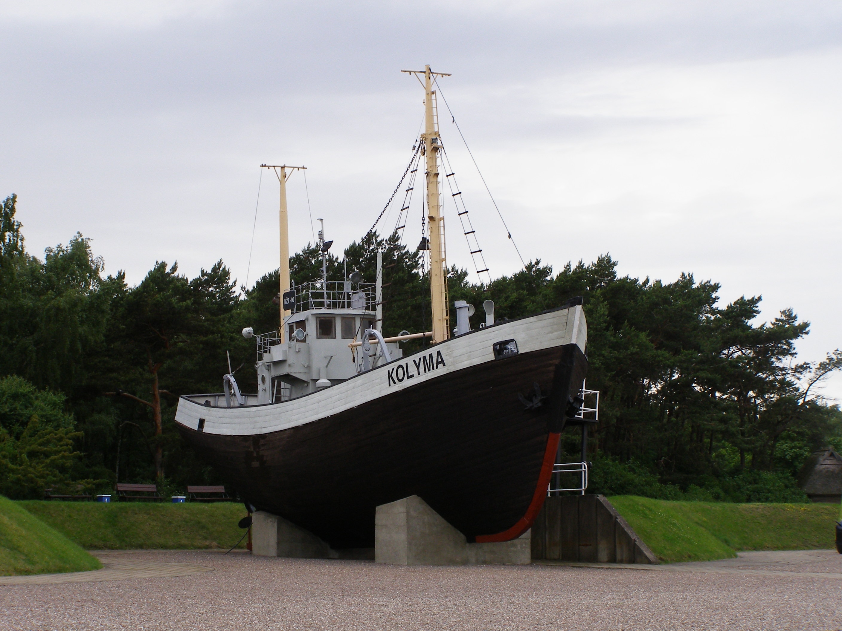 Ship "Kolyma" in the Lithuanian Sea Museum in Klaipeda